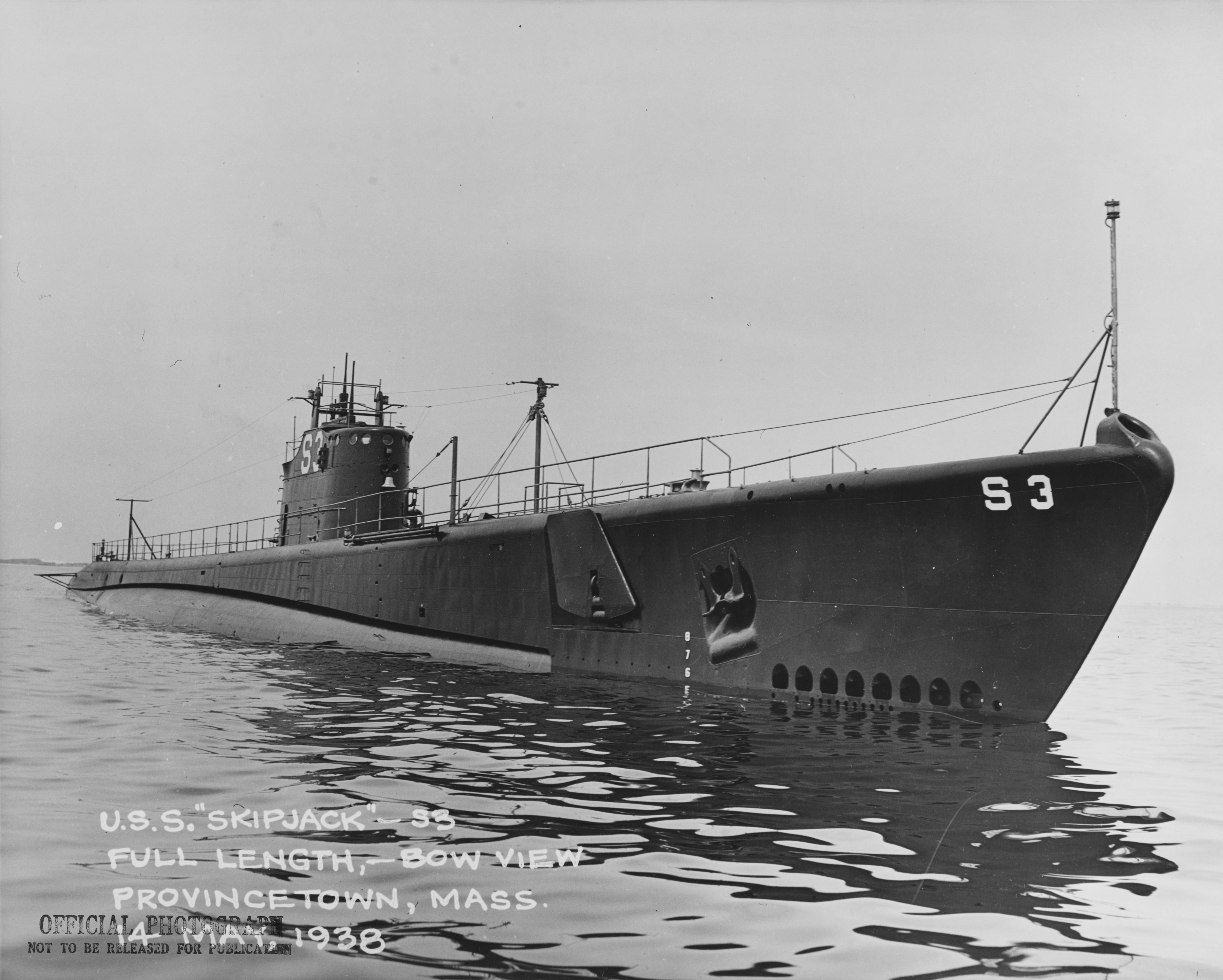 USS Skipjack (SS-184) off Provincetown, Massachusetts during sea trials, 14 May 1938. Photograph from the Bureau of Ships Collection in the U.S. National Archives.